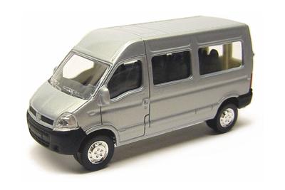 Norev model of Renault Master minibus